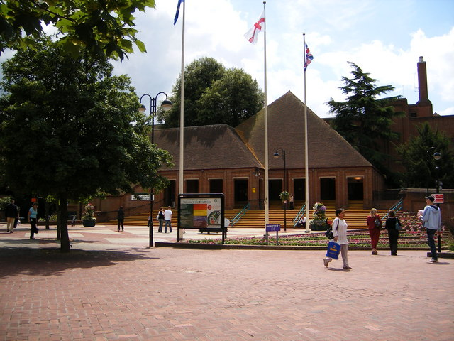 Civic Centre, Uxbridge. Council offices for the London Borough of Hillingdon.